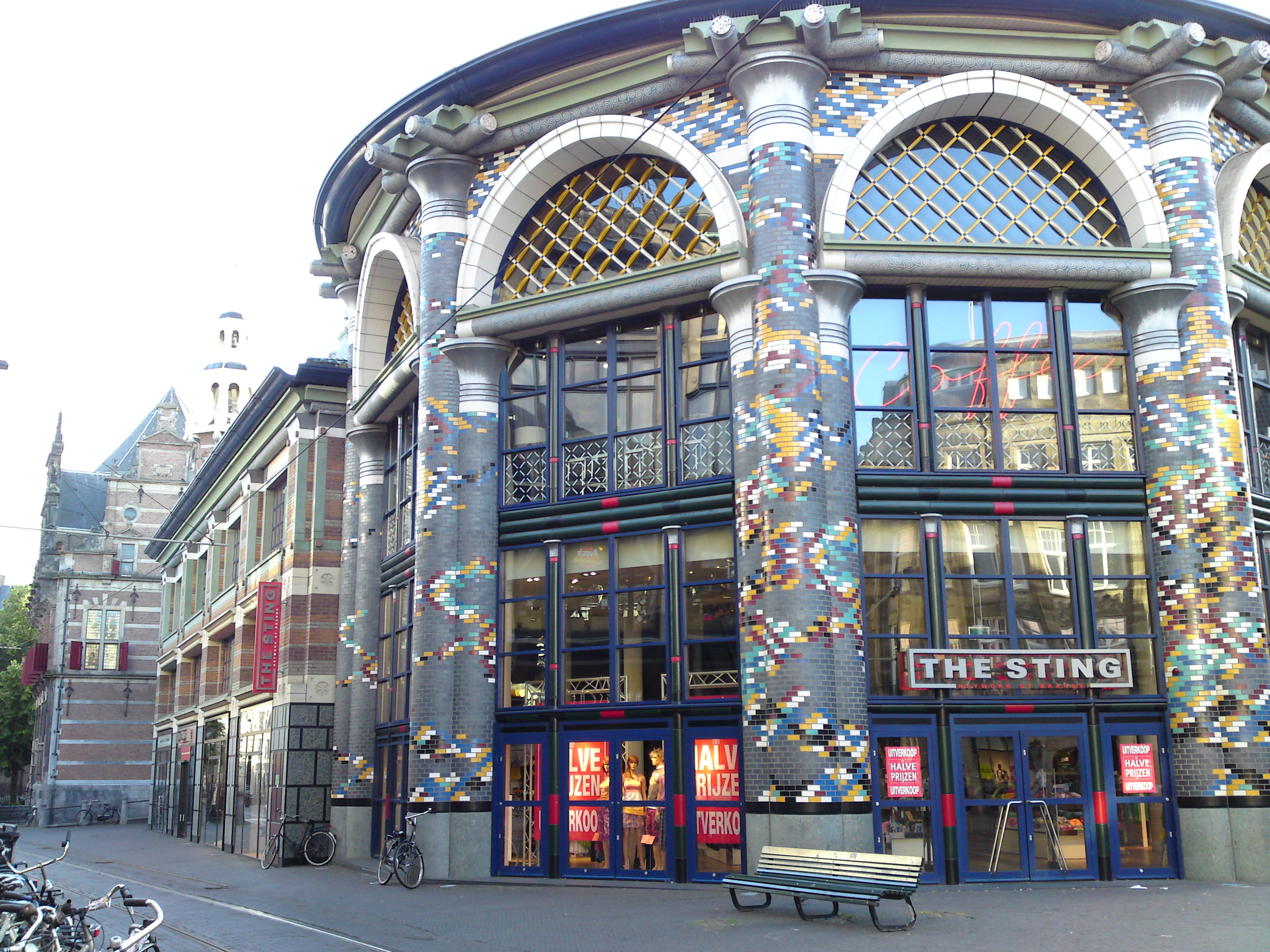 The Sting in Den Haag